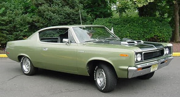 1970 "The Machine" - a special model of the AMC Rebel two-door hardtop by American Motors Corporation (AMC). This is a factory built classic American "Muscle Car" with AMC's 390 cu. in. displacement (6.4 L) V8 engine producing 340 hp (254 kW) and 430 pound-feet of torque @ 3600 rpm. This car was finished in the regular production paint: "Mossport Green Metallic" (paint code - P86), with standard blacked out hood and air scoop. Picture taken at the 2003 AMCRC show in Somerset, New Jersey.